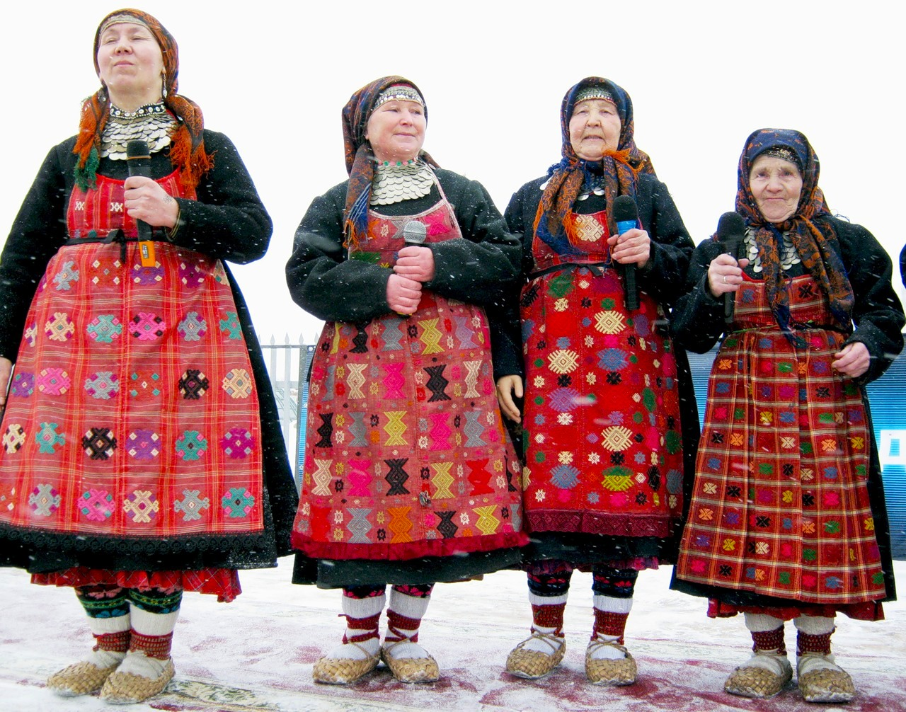 Buranovskiye Babushki